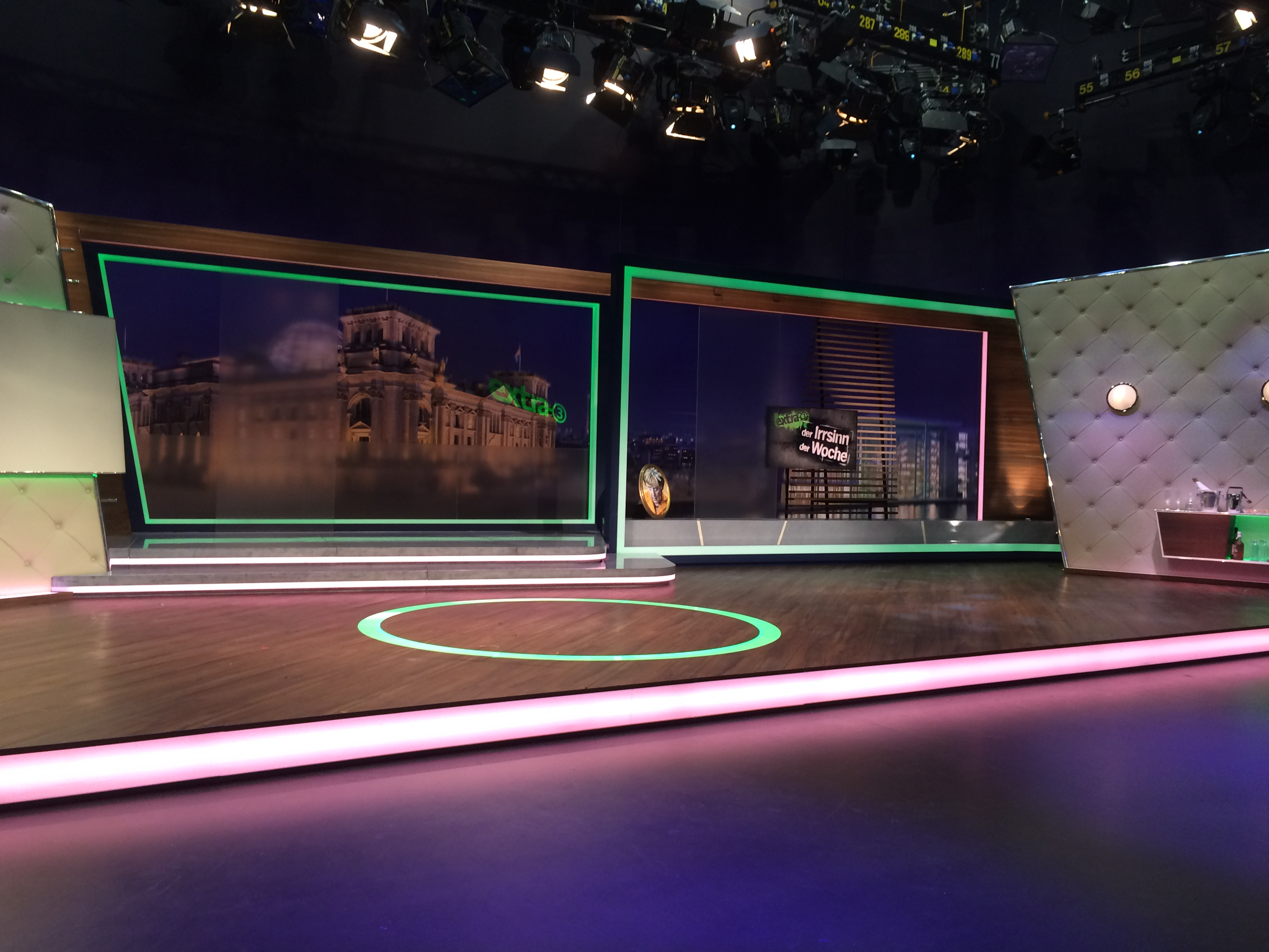 The studio of the tv show extra 3 which is used for the recordings since 2014.